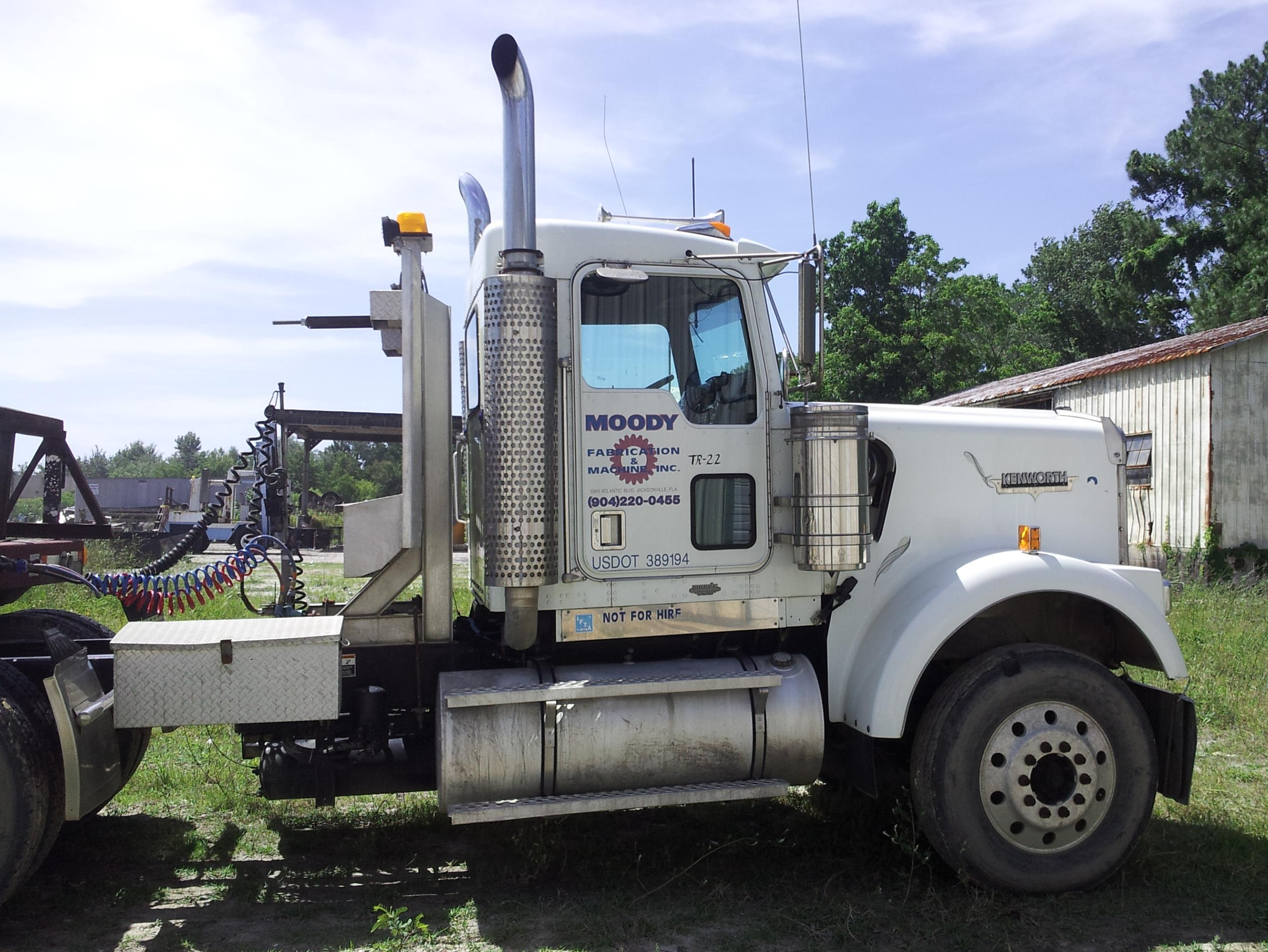 Moody Fabrication semi